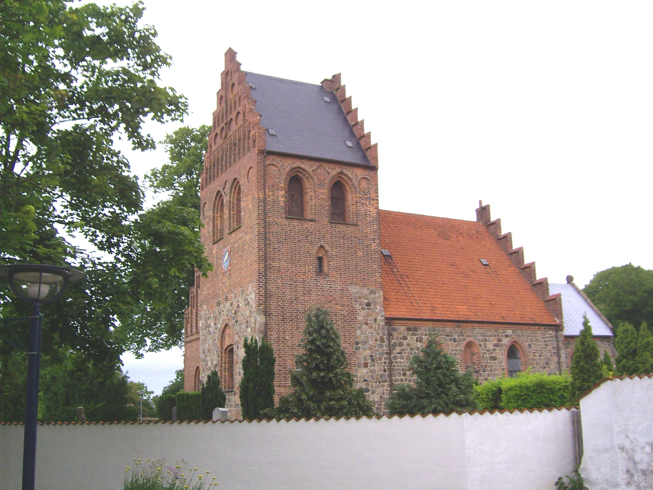 Church in Ballerup, Community of Ballerup, diocese of Helsingør. Date: 2006.07.12 Author: Sir48